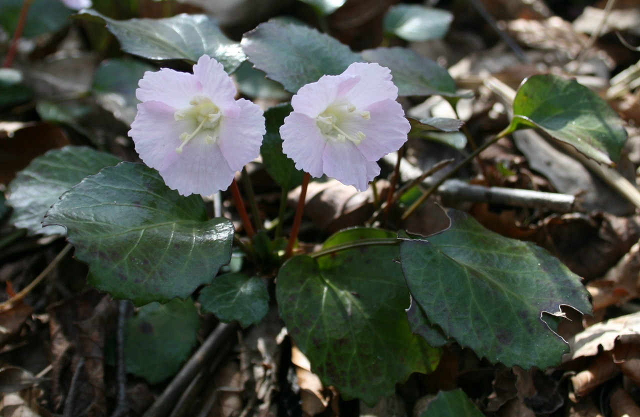 Shortia_uniflora_Iwauchiwa_in_Hiekawadake_2006-4-29